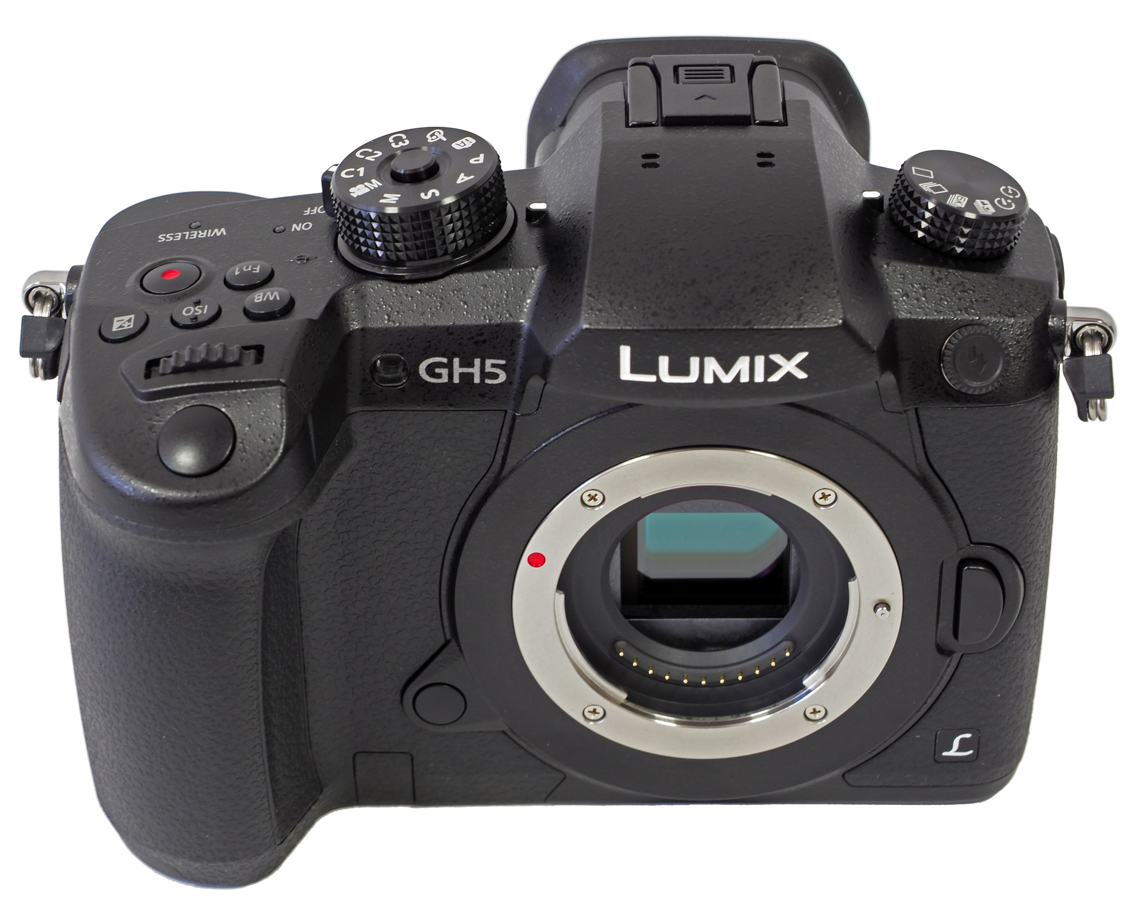 Panasonic Lumix DMC.GH5 - camera body